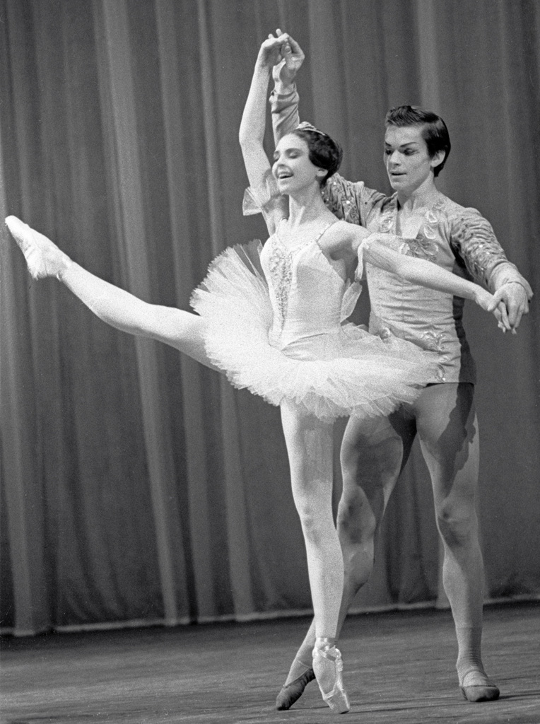 “Semenyaka and Kovmir Perform at 1st International Ballet Contest”. Lyudmila Semenyaka (left) and Nikolai Kovmir (right) performing at the 1st international ballet contest in Moscow.